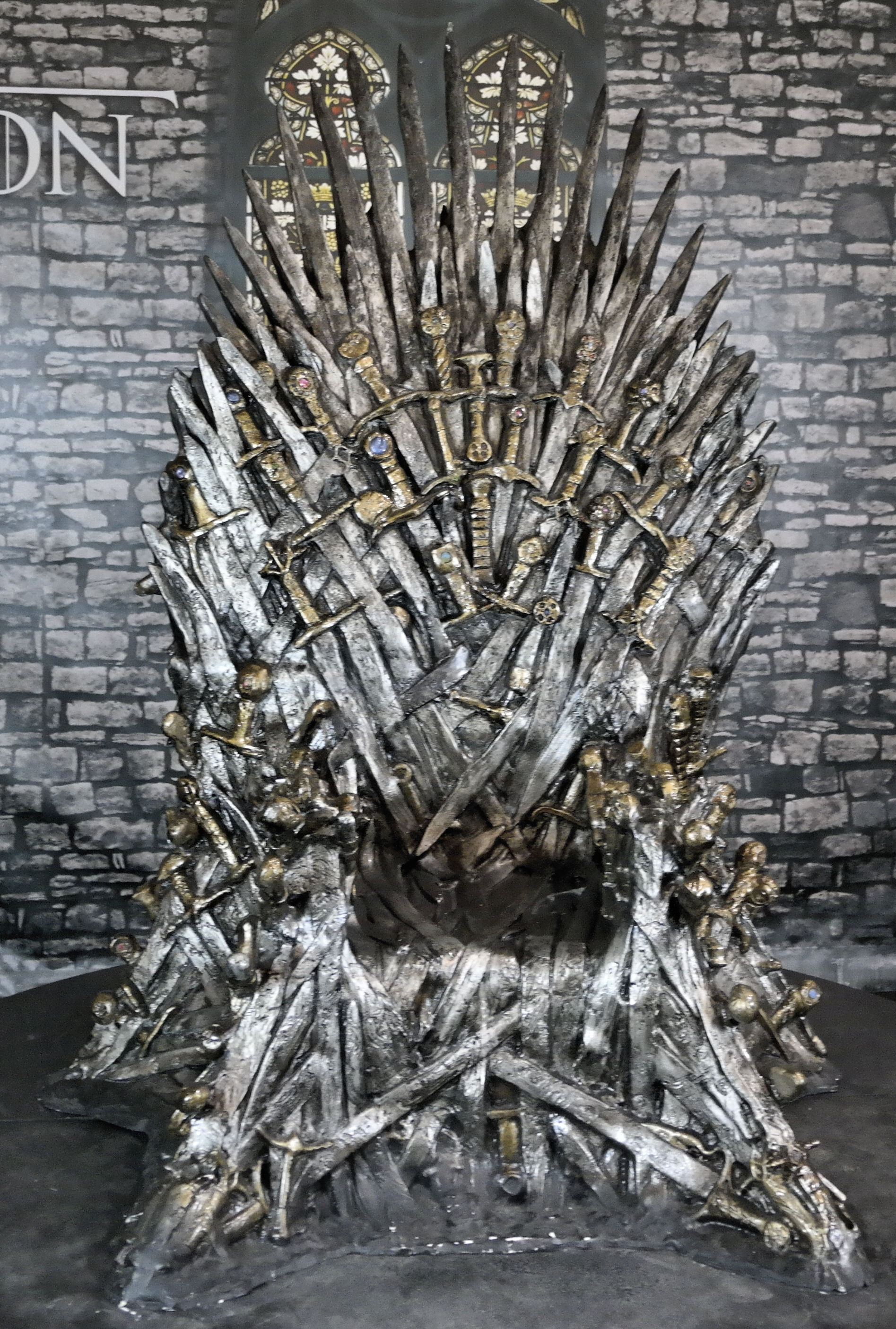 The Iron Throne from TV series Game of Thrones (HBO), Pyrkon, Poznań 2015